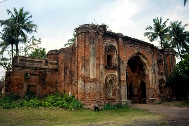 Nimak haram Deuri (House of Mir Jafar)